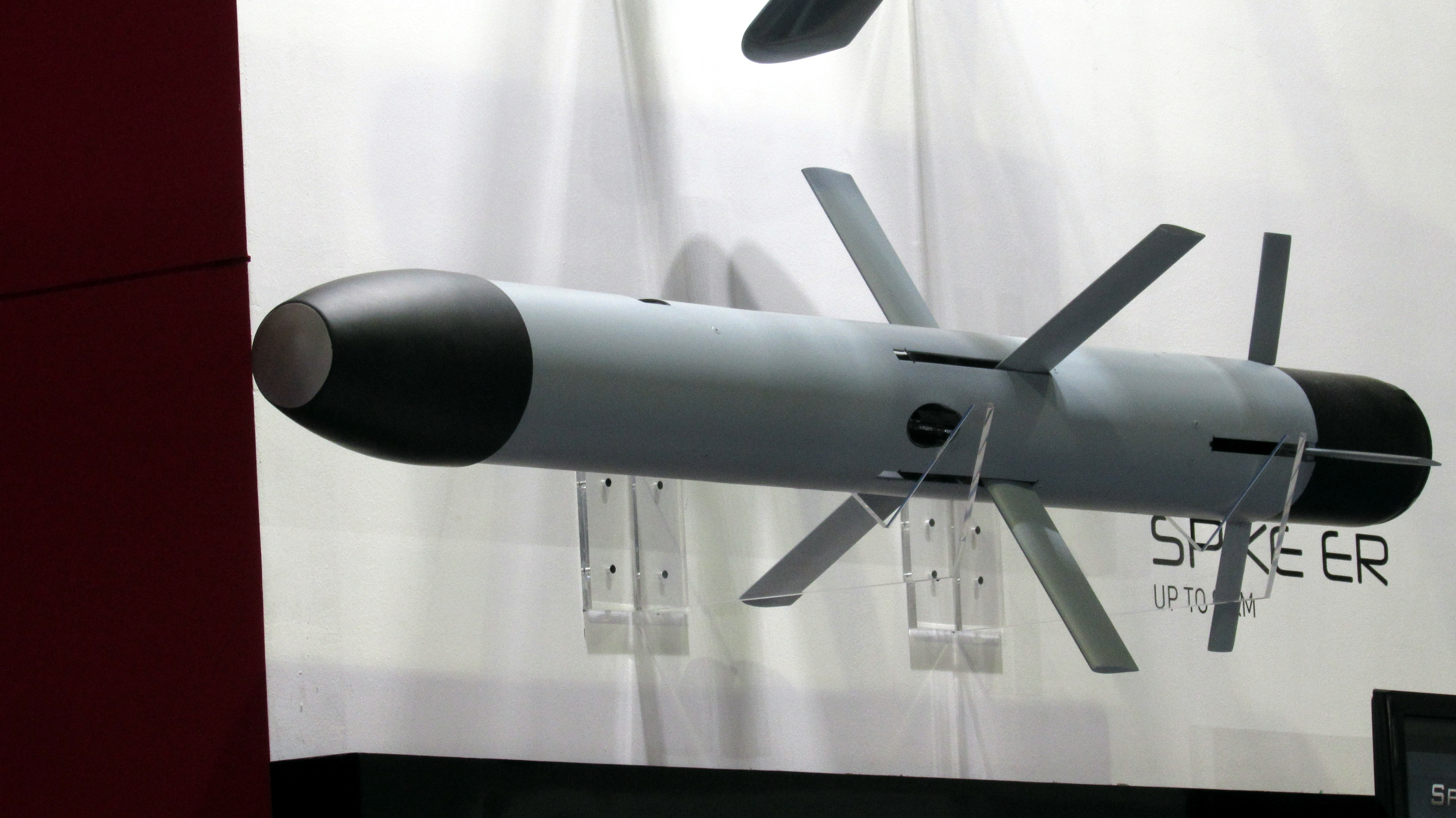 A full scale mock up of a Spike ER missile made by the Israeli company, Rafael Systems. Photo taken during the 2016 Asian Defence and Security (ADAS) Trade Show at the World Trade Center in Pasay, Metro Manila